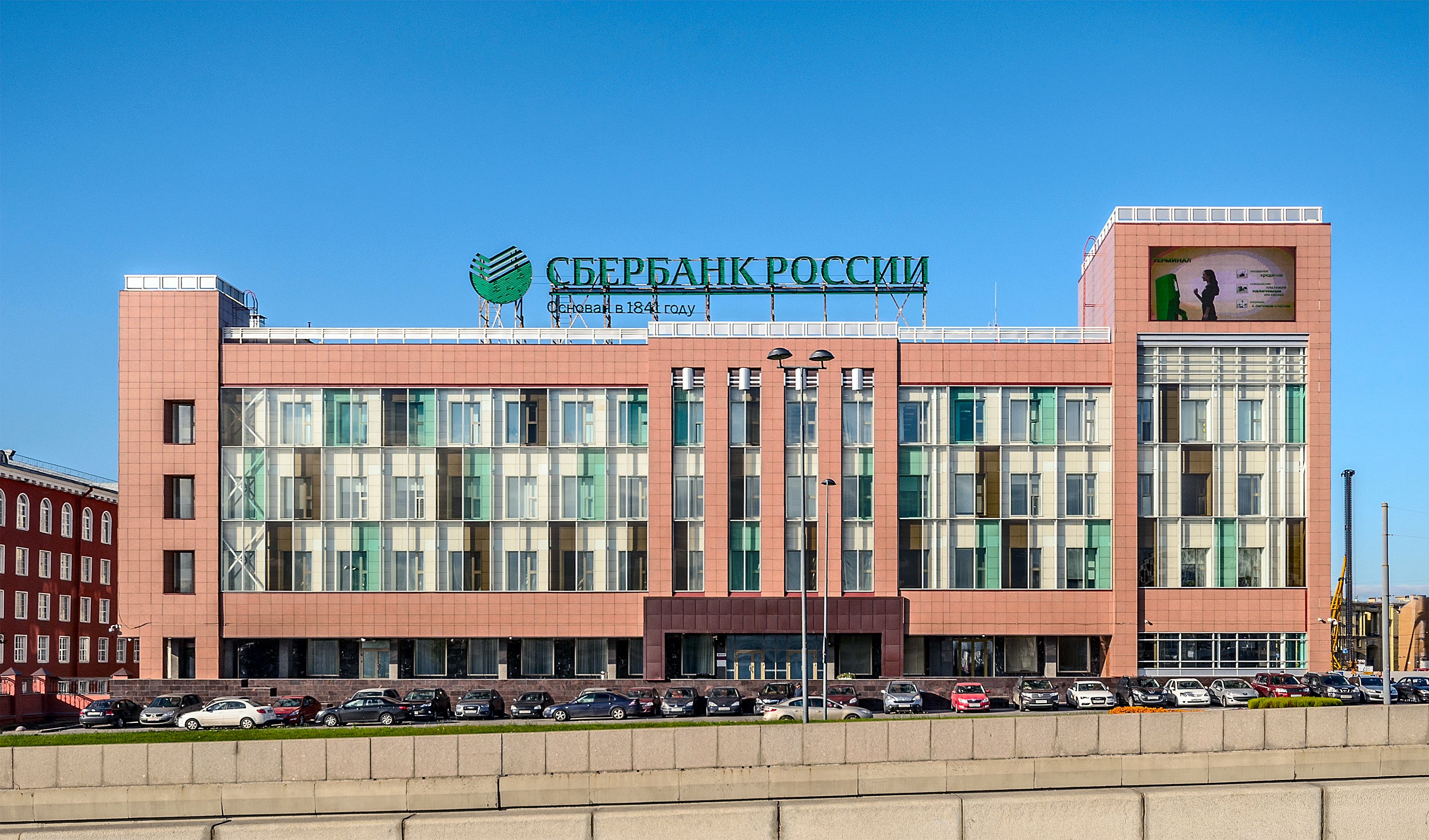 Sinopskaya Embankment in Saint Petersburg. Savings Bank of Russia Central Office.